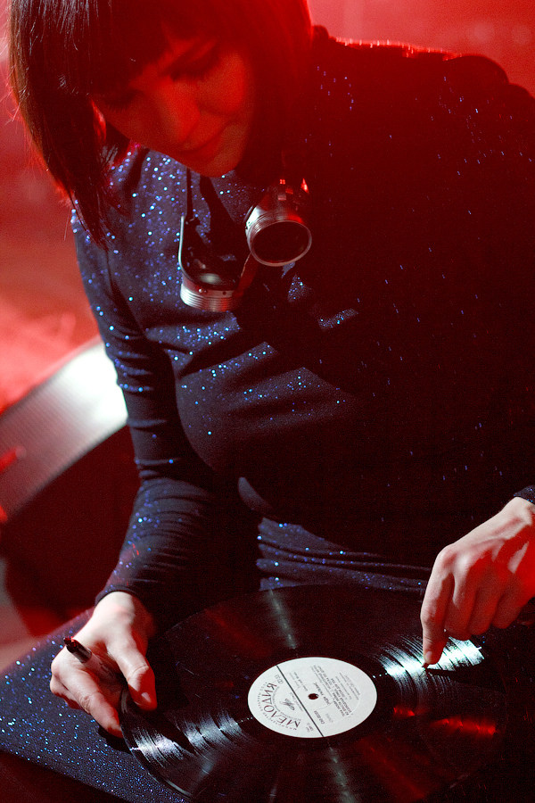 Emika at Electromechanica 2011